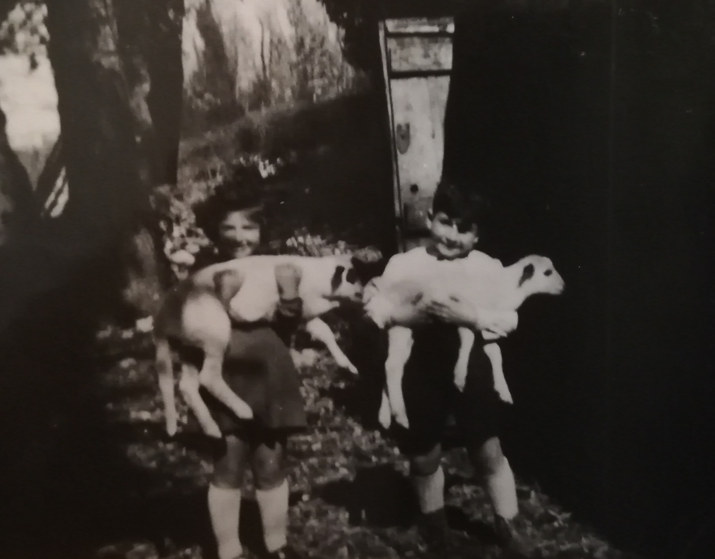 Claude and Danielle, brother and sister, Jewish children refugees in 1944 in the farm of Grandou in Mayrac (France)